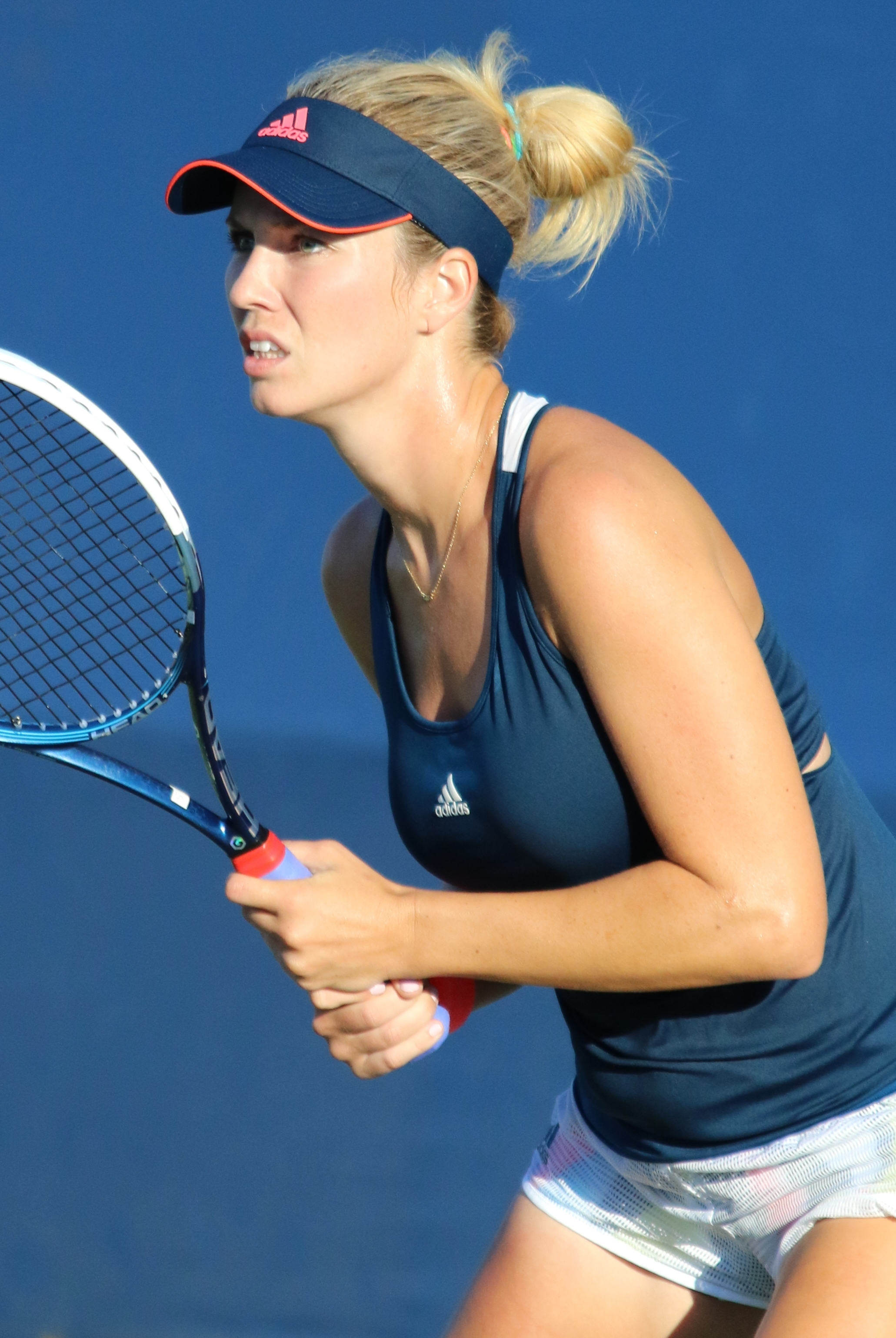 Collins US16 (1)